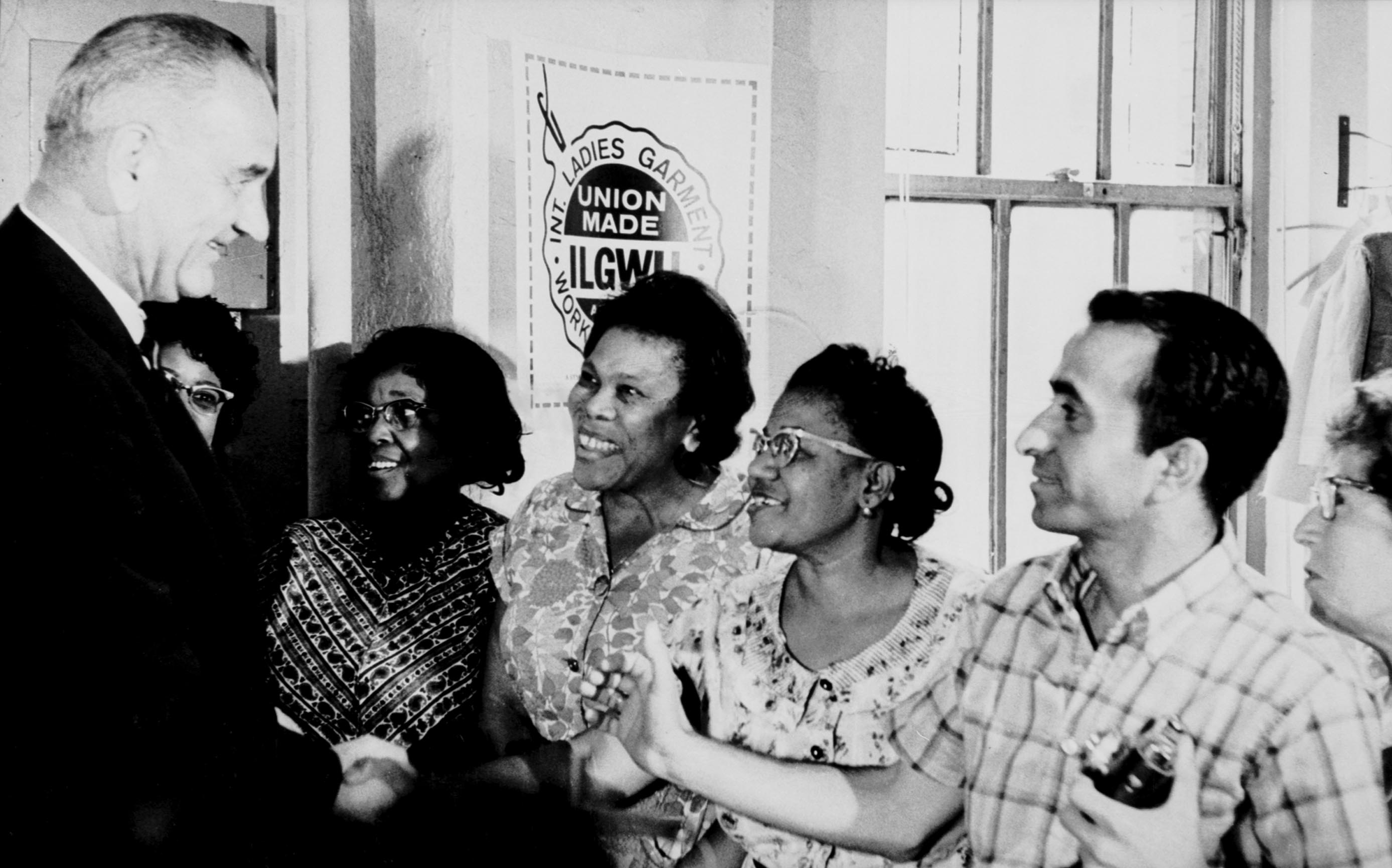 Title: ILGWU workers meet Lyndon B. Johnson Date: Unknown Photographer: Unknown Photo ID: 5780PB15F11C Collection: International Ladies Garment Workers Union Photographs (1885-1985) Repository: The Kheel Center for Labor-Management Documentation and Archives in the ILR School at Cornell University is the Catherwood Library unit that collects, preserves, and makes accessible special collections documenting the history of the workplace and labor relations. Notes: No additional information available. Copyright: The copyright status of this image is unknown. It may also be subject to third party rights of privacy or publicity. Images are being made available for purposes of private study, scholarship, and research. The Kheel Center would like to learn more about this image and hear from any copyright owners who are not properly identified so that we may make the necessary corrections. Tags: Kheel Center for Labor-Management Documentation and Archives,Cornell University Library,Public Figures, Women, African Americans